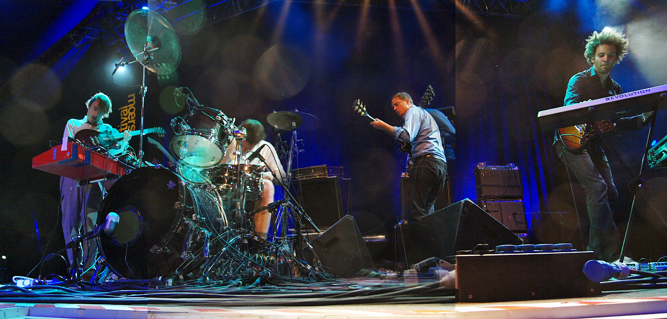 Battles (Ian Williams, John Stanier, Dave Konopka, Tyondai Braxton), moers festival 2008 (composing from two images, "stitching lines" are visible by full intention!)